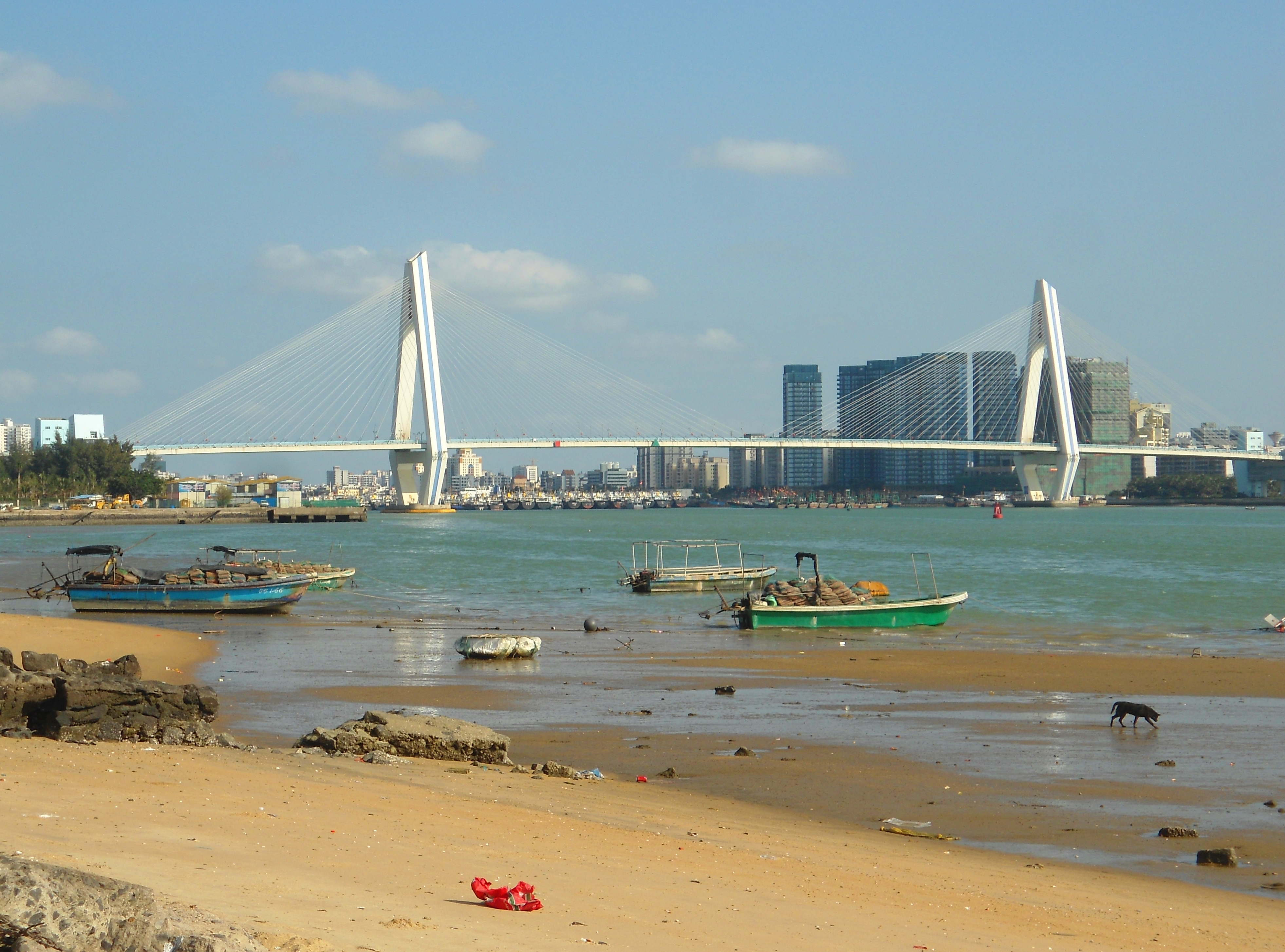 Haikou Century Bridge viewed from Haidian Island, Haikou, Hainan, China.